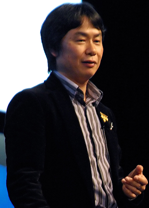 Shigeru Miyamoto at the Game Developers Conference 2007.